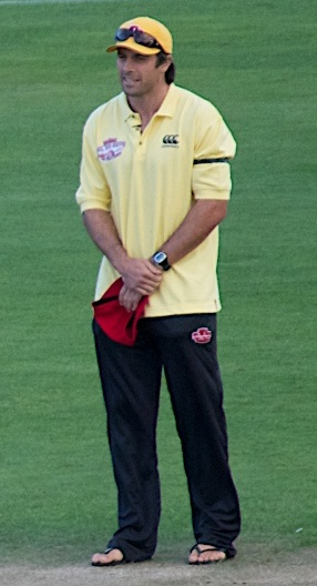 The New Zealand's international rugby unio player Conrad Smith umpiring at a charity cricket game in 2011. Image cropped from Kristina D.C. Hoeppner's photo